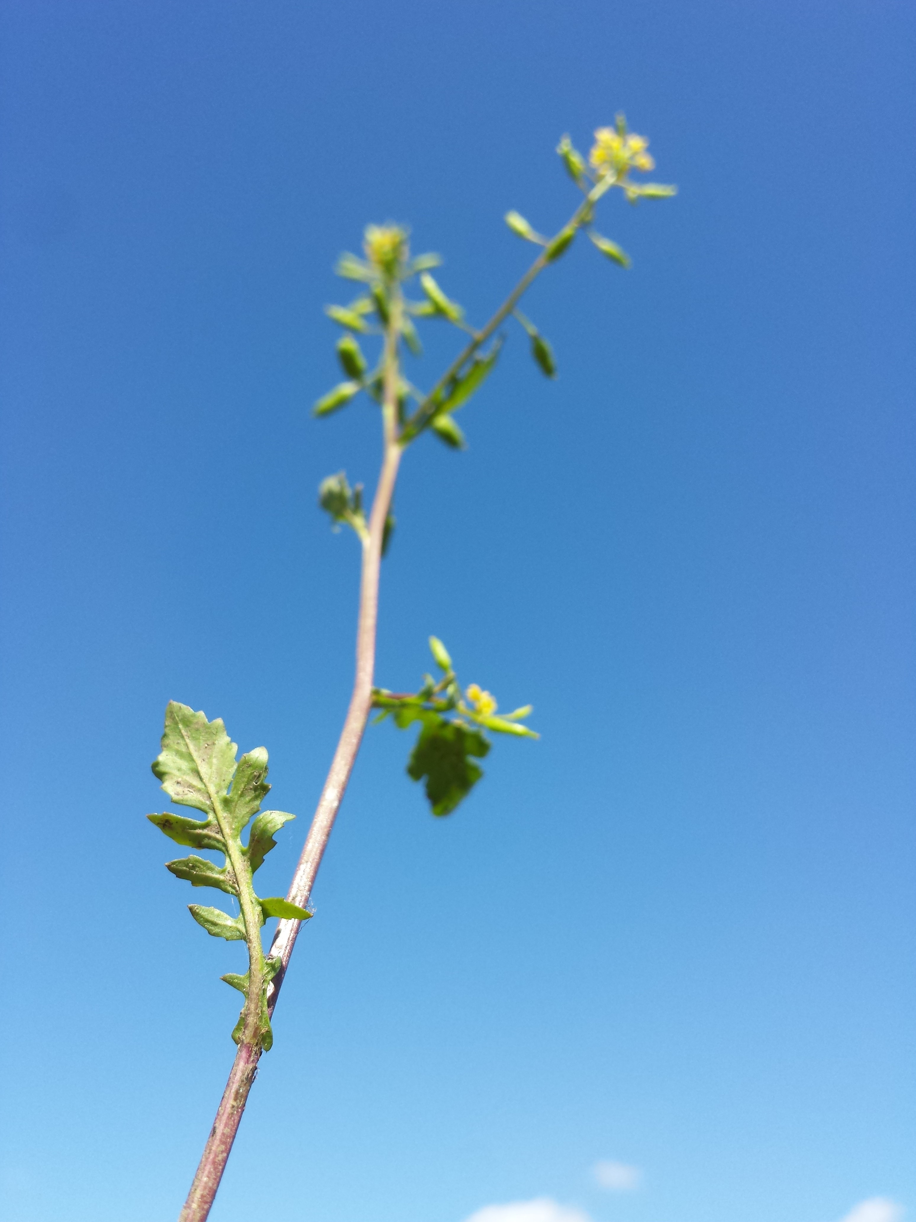 Stem with leaves Taxonym: Rorippa palustris ss Fischer et al. EfÖLS 2008 ISBN 978-3-85474-187-9 Location: Žárský rybník, Jihočeský kraj, Czech Republic - ca. 500 m a.s.l. Habitat: shore of a pond